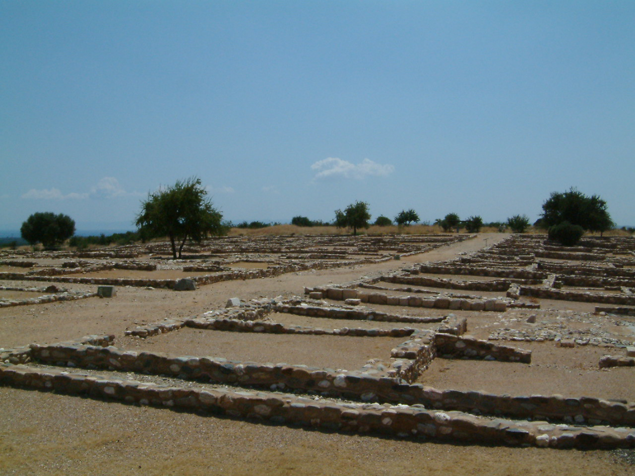 Reconstructed remains of ancient city of Olynthos, Chalkidiki, Greece (northern hill of ancient town). Hippodamic town layout (rectangular streets and housing blocks) visible.